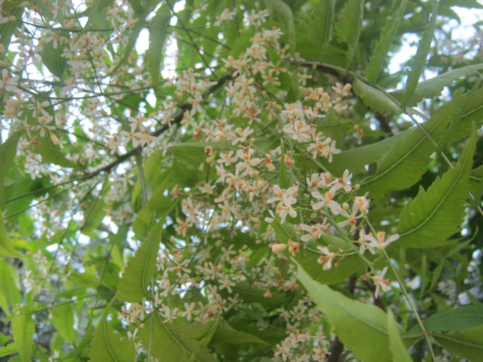 Inflorescence of Neem tree